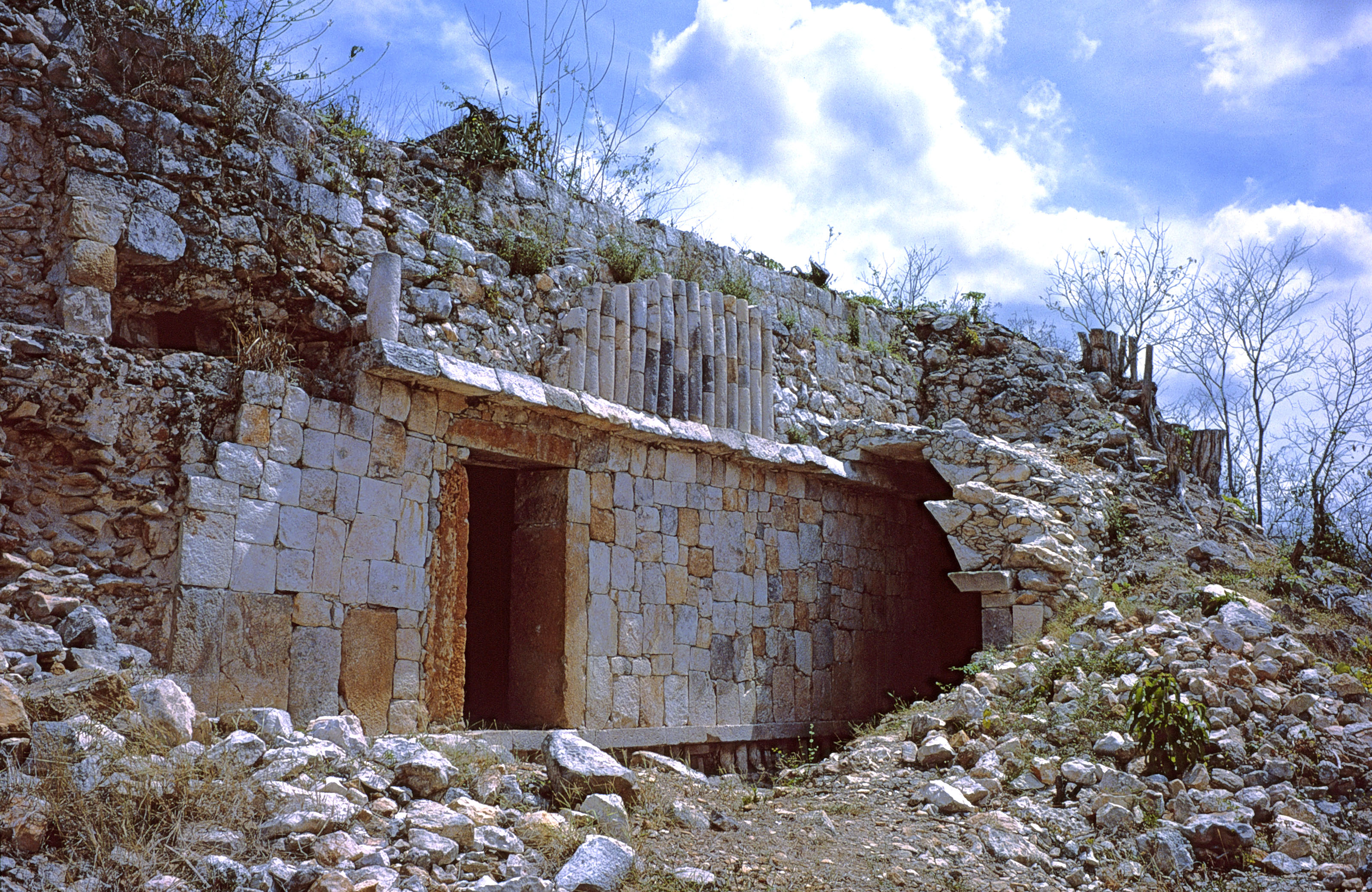 Xcalumkin, Campeche, Mexico: building D4-6